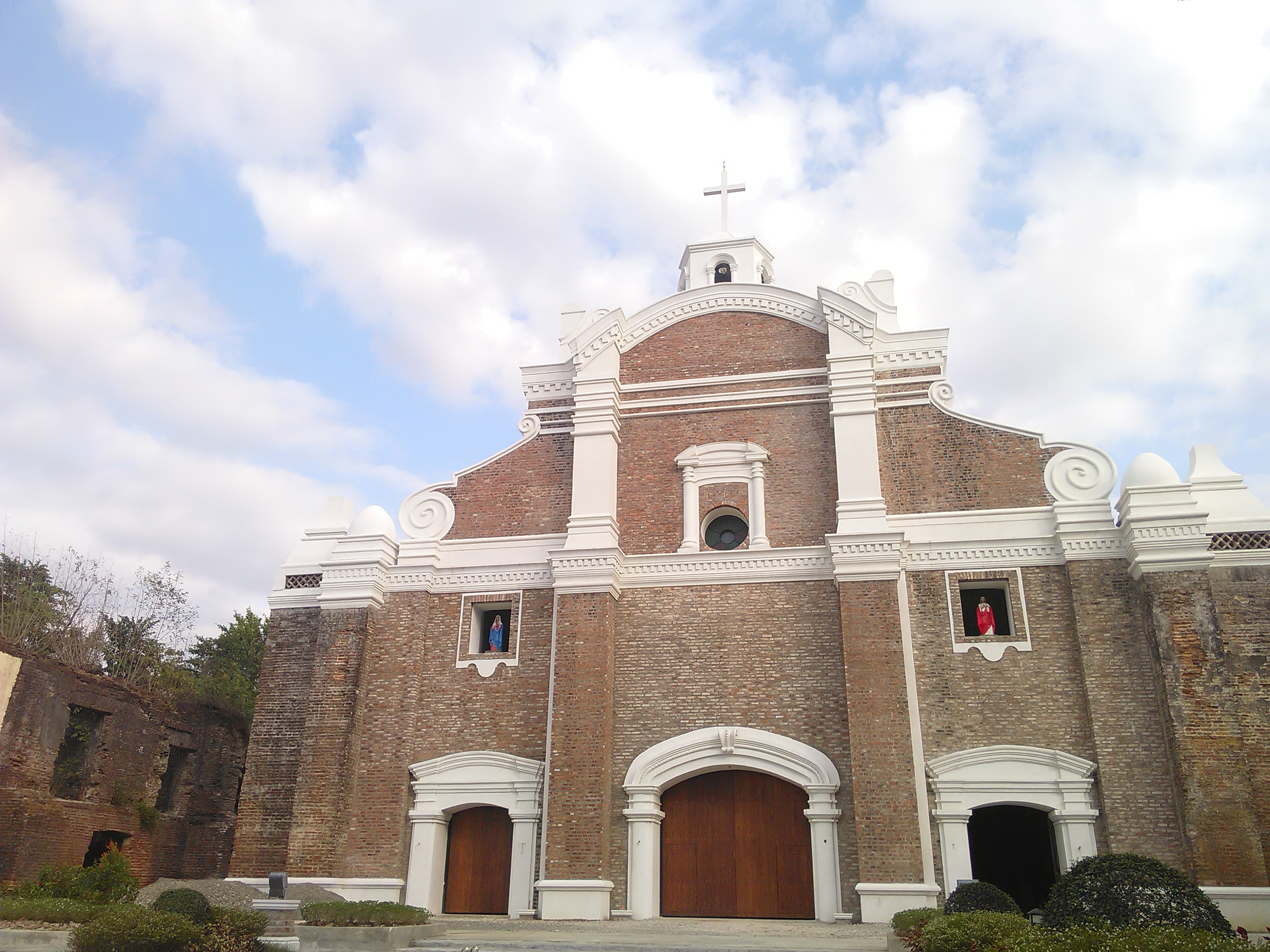 Roman Catholic Parish Church of Saint Joseph Dingras, Ilocos Norte